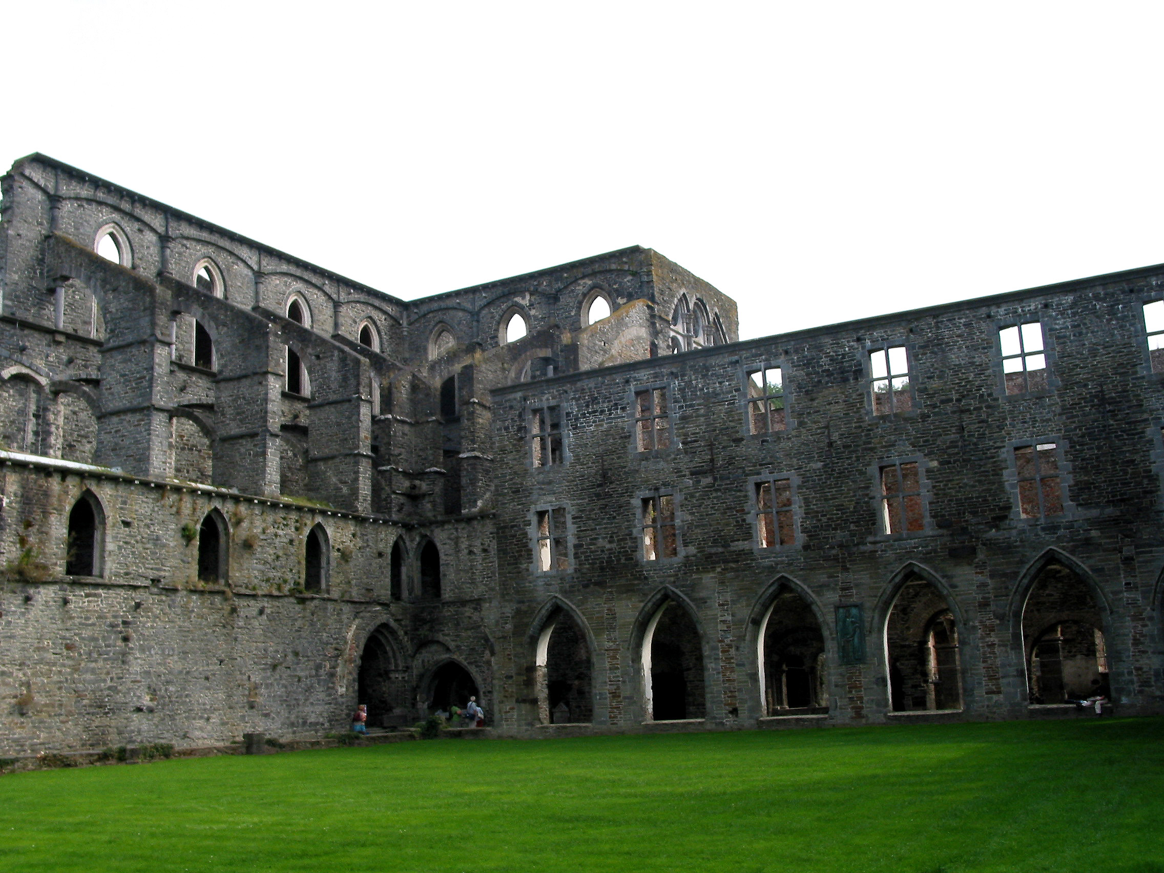 Villers-la-Ville (Belgium), ruins of the nave, right transept and northern part cloister of the abbey church (XIIIth century).